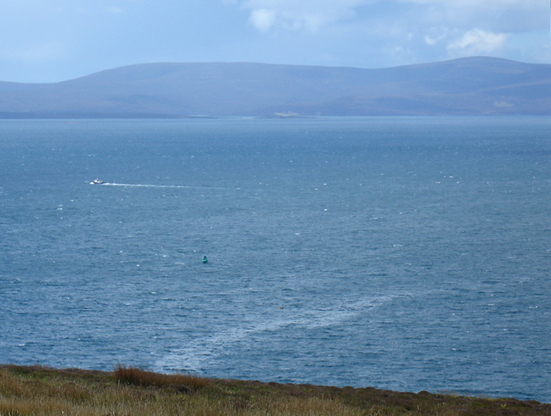 Scapa Flow from Gaitnip cliffs, showing the wreck site of HMS Royal Oak, marked by a green buoy. An oil slick is visible rising to the surface after almost 70 years.